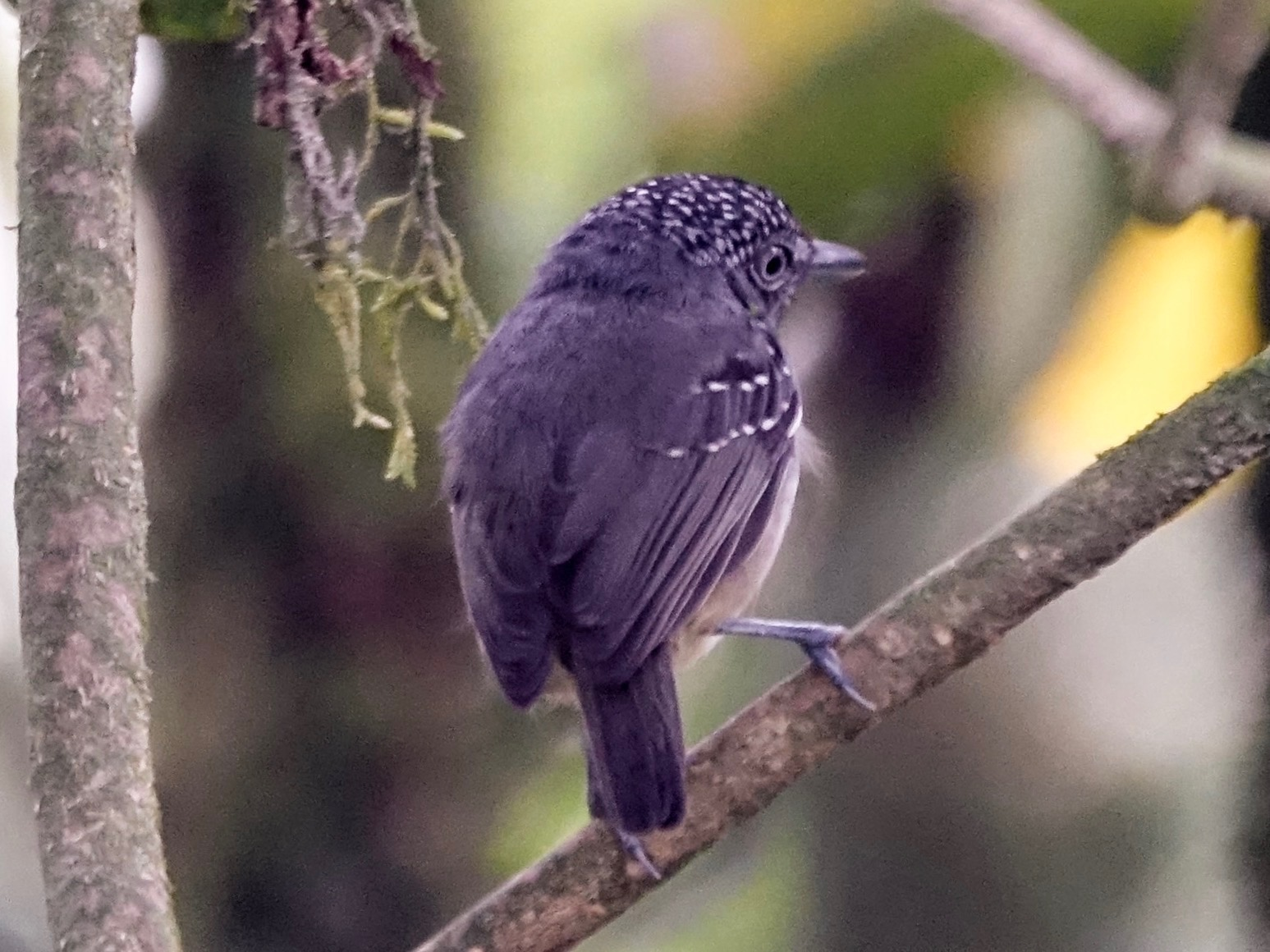 Spot-crowned Antvireo